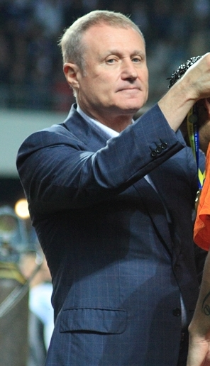 Hryhoriy Surkis